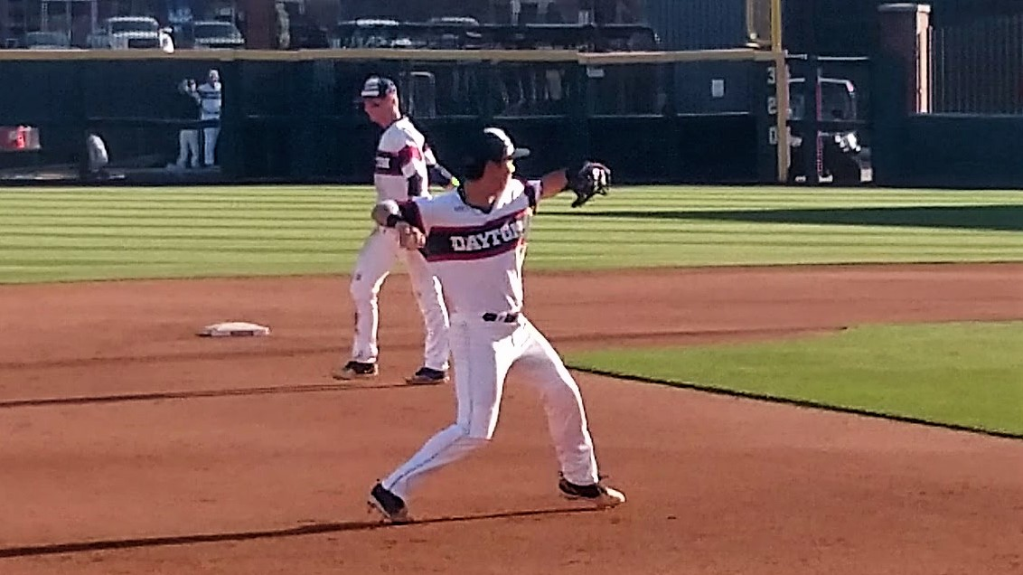 Third baseman Takahiro Yamada warms up for the Dayton Flyers baseball team against Arkansas in Baum Stadium